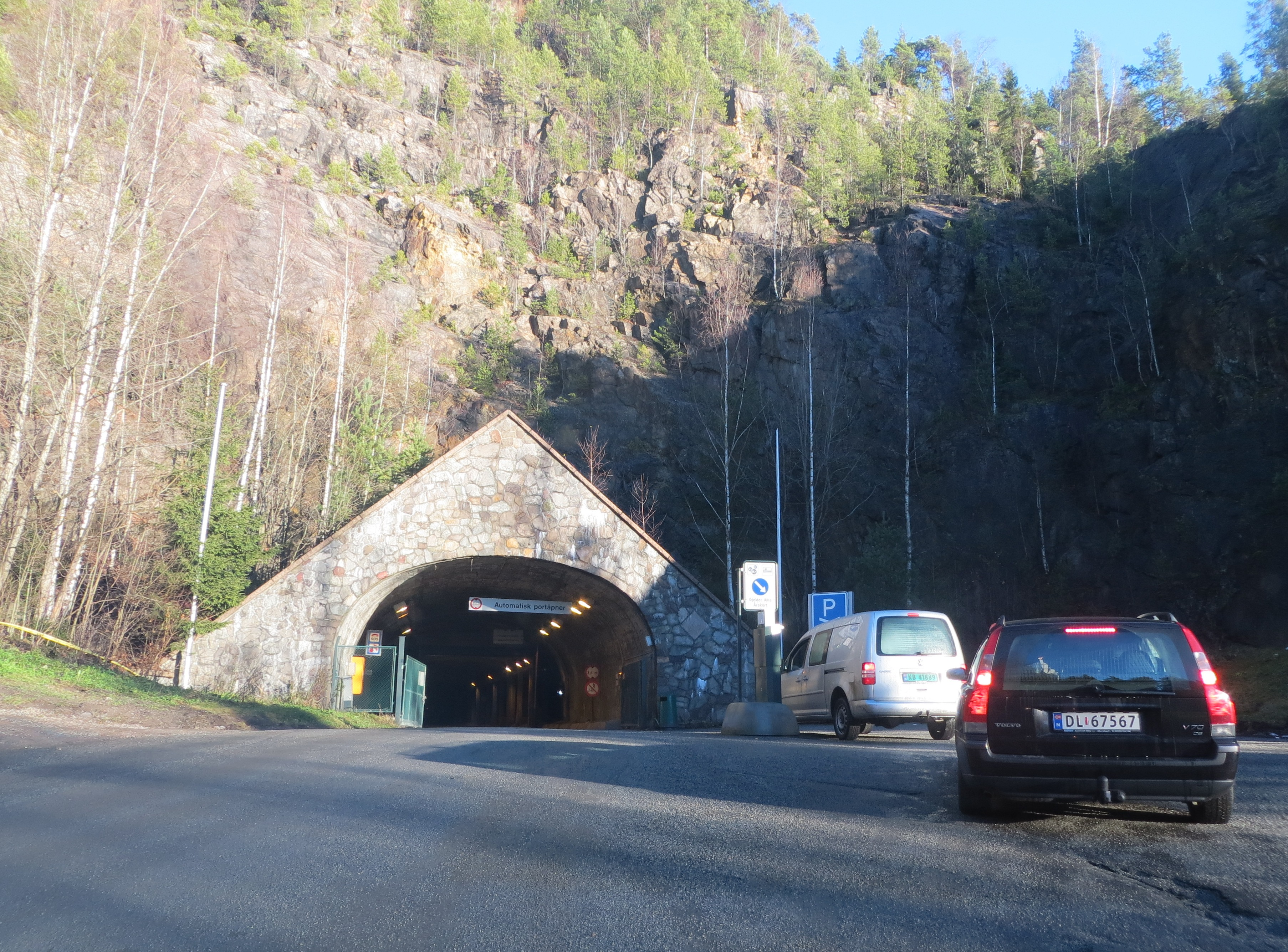 Entrance to the spiral tunnel "Spiralen", which winds 6,5 times around its own axis from 50 meters ASL to 213 meters ASL in the ward of Bragernes, Drammen (Norway). The tunnel was opened in 1961.